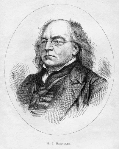 Miles Joseph Berkeley (1803-1889), British clergyman and cryptogamist